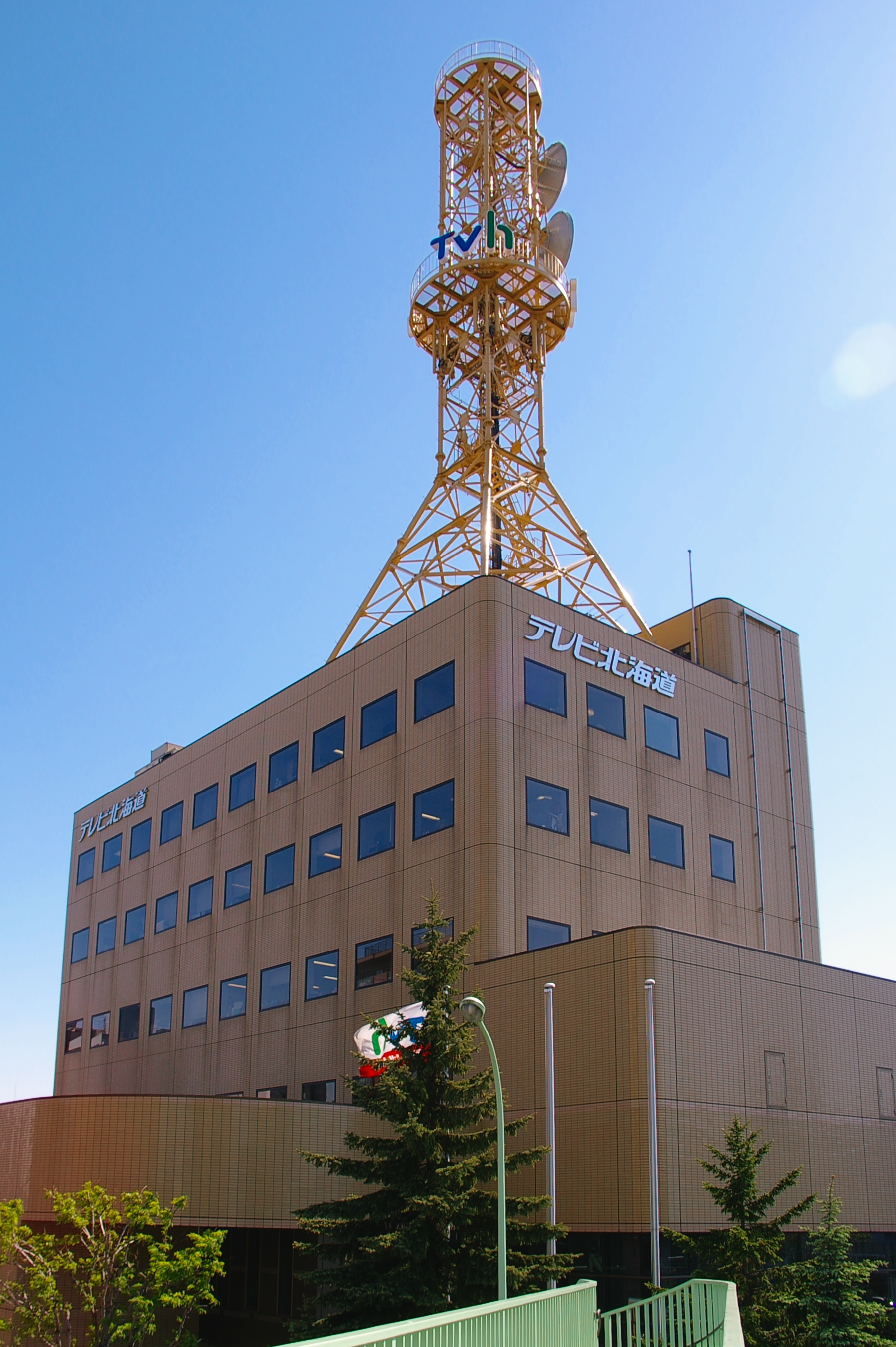 Photograph of Ito Building No. 5, headquarters of Television Hokkaido Broadcasting Company, in Chuo-ku, Sapporo, Hokkaido, Japan.